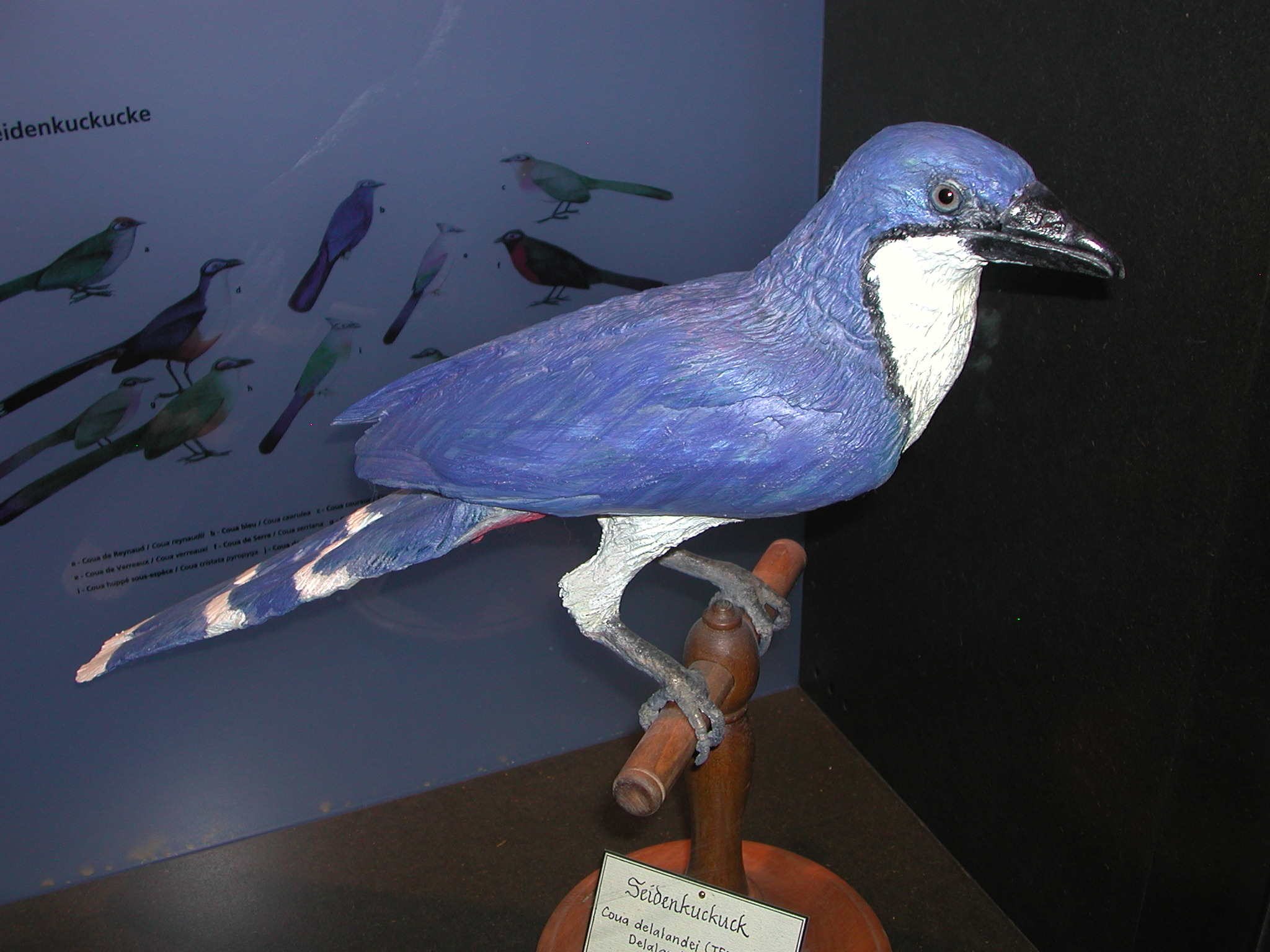 Photo taken in the Zürich Zoo